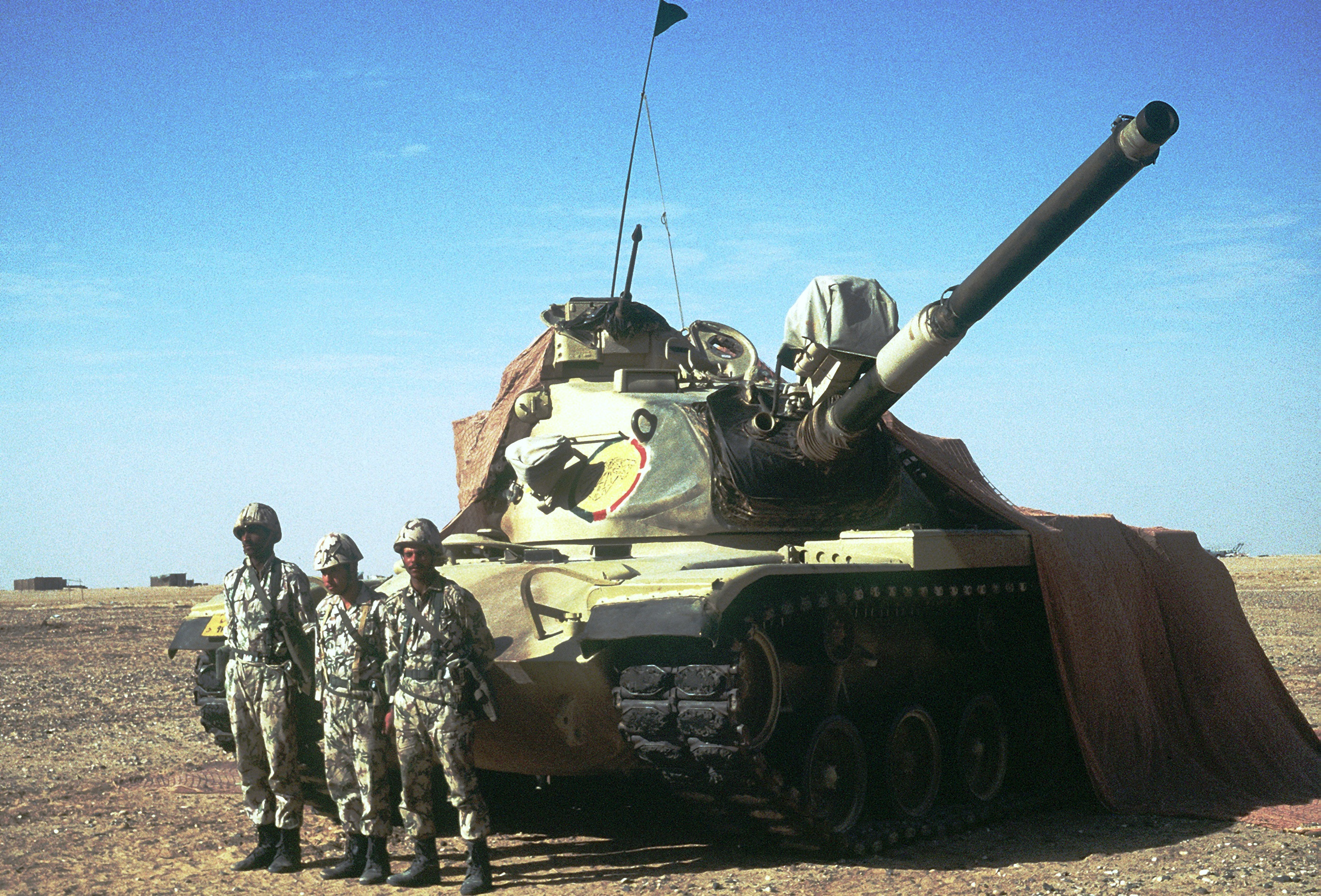 Egyptian soldiers stand in front of a 3rd Armored Brigade M-60 main battle tank during a demonstration for visiting dignitaries, part of Operation Desert Shield.